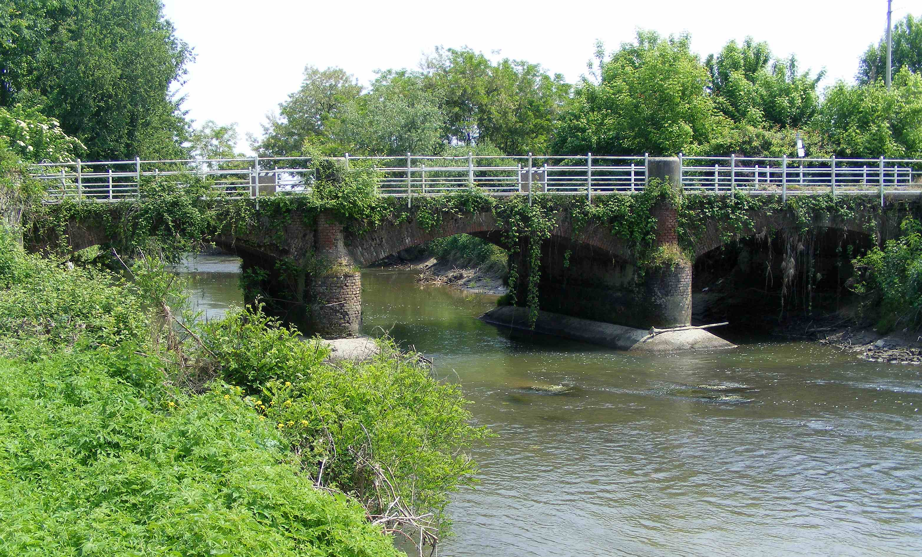 Bridge of SP 24 on Marcova creek near Costanzana (VC, Italy)